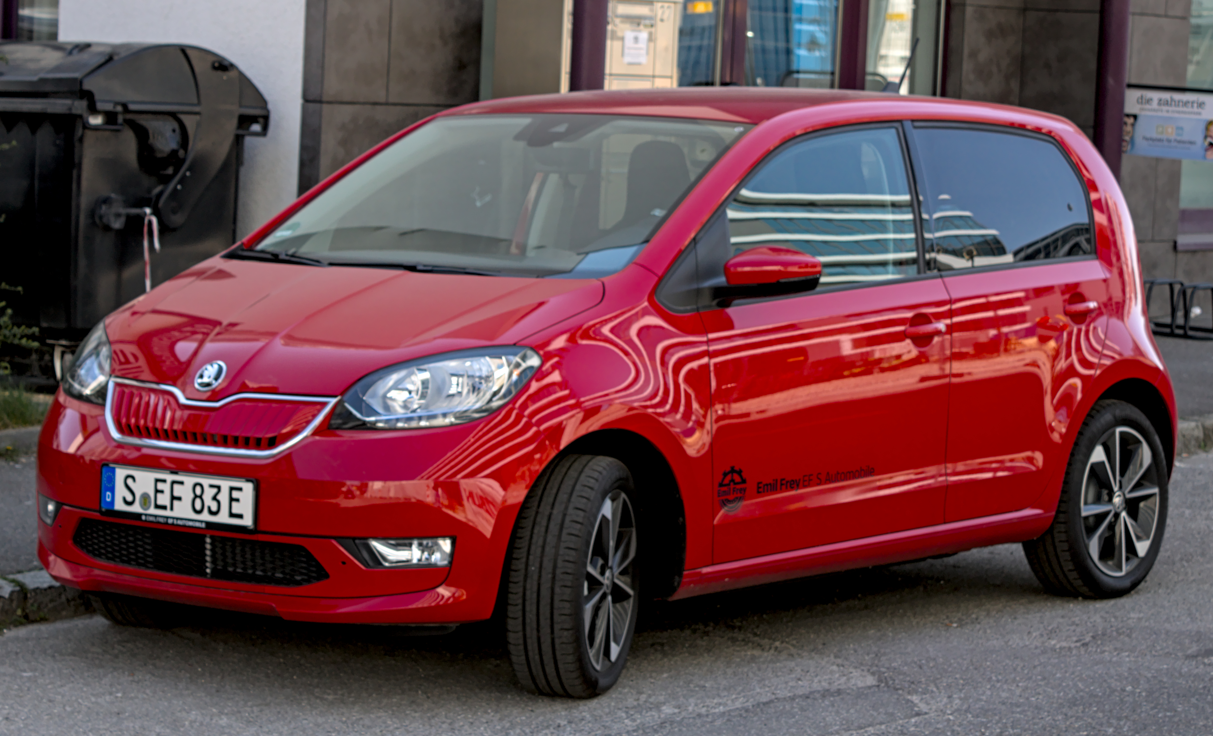 Skoda_Citigo-e_iV in Stuttgart-Vaihingen